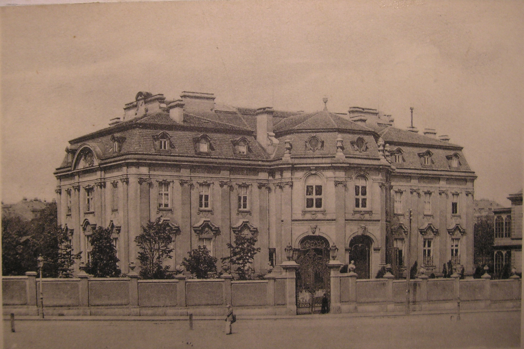 Image of the Palais Lanckoroński in Vienna, which was the private residence of Count Lanckoroński and his vast art collection, which was open to the public. The image is part of a post-card series that were made specifically for the building and its collection.